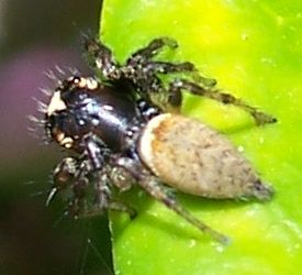 Thiodina hespera. Male. Size ~ 6 mm.